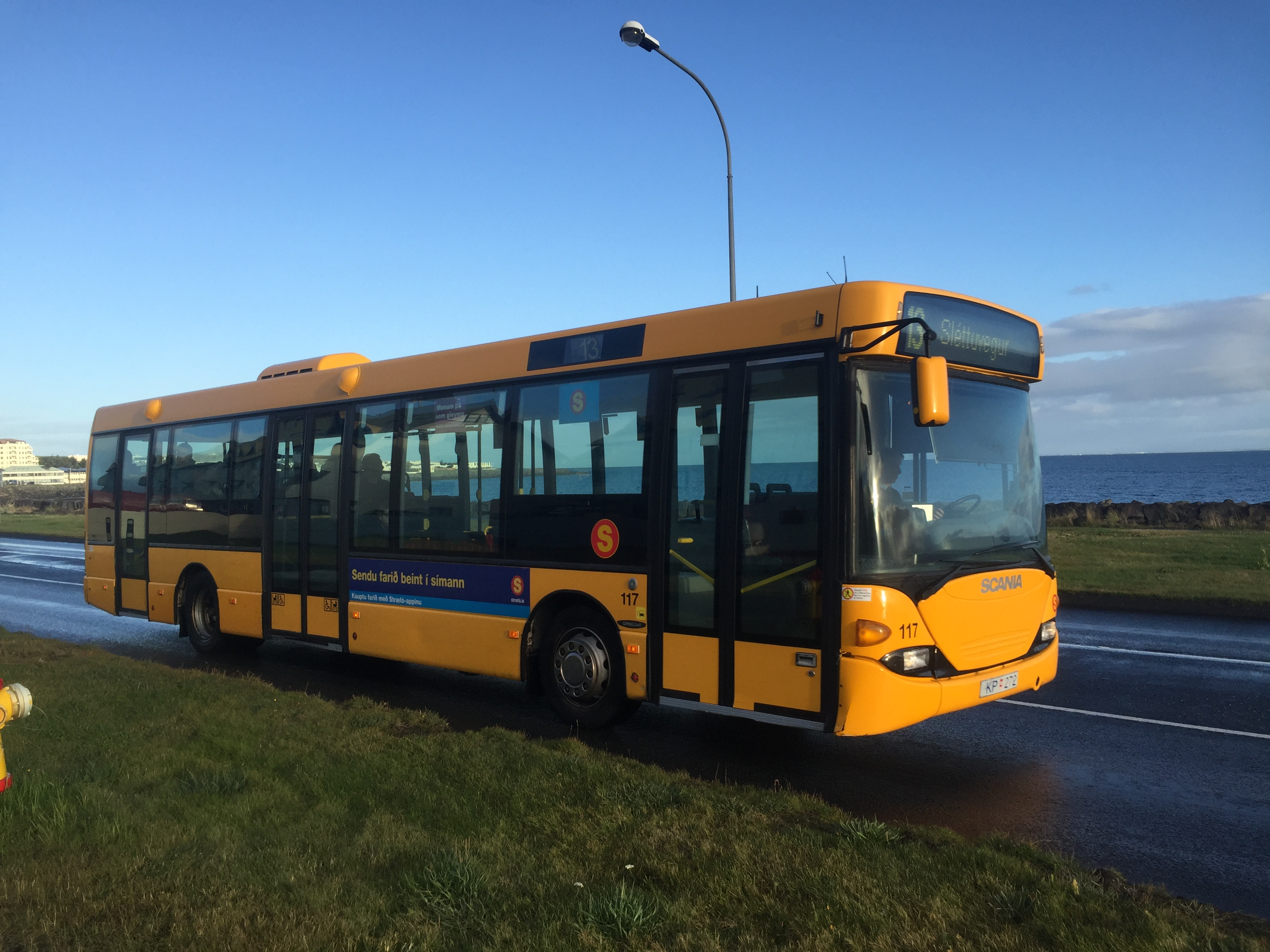 Reykjavik bus